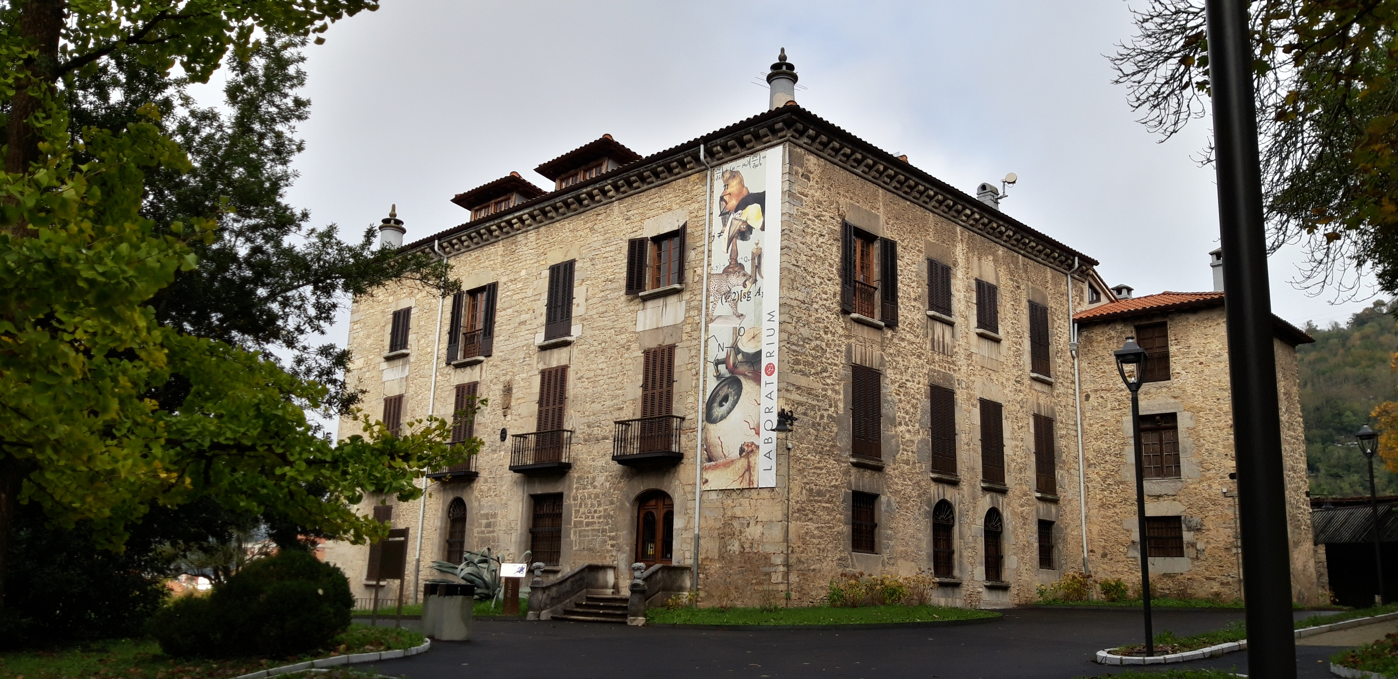 Facade of Errekalde palace, headquarters of Laboratorium Bergara museum.